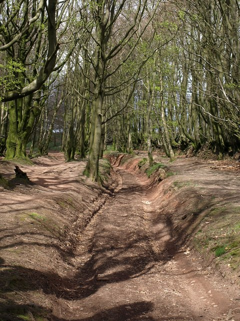 Quantock bridleway The bridleway runs along the ridge top of the Quantock Hills, and is followed here by both the Macmillan Way West and the Samaritans Way South West.